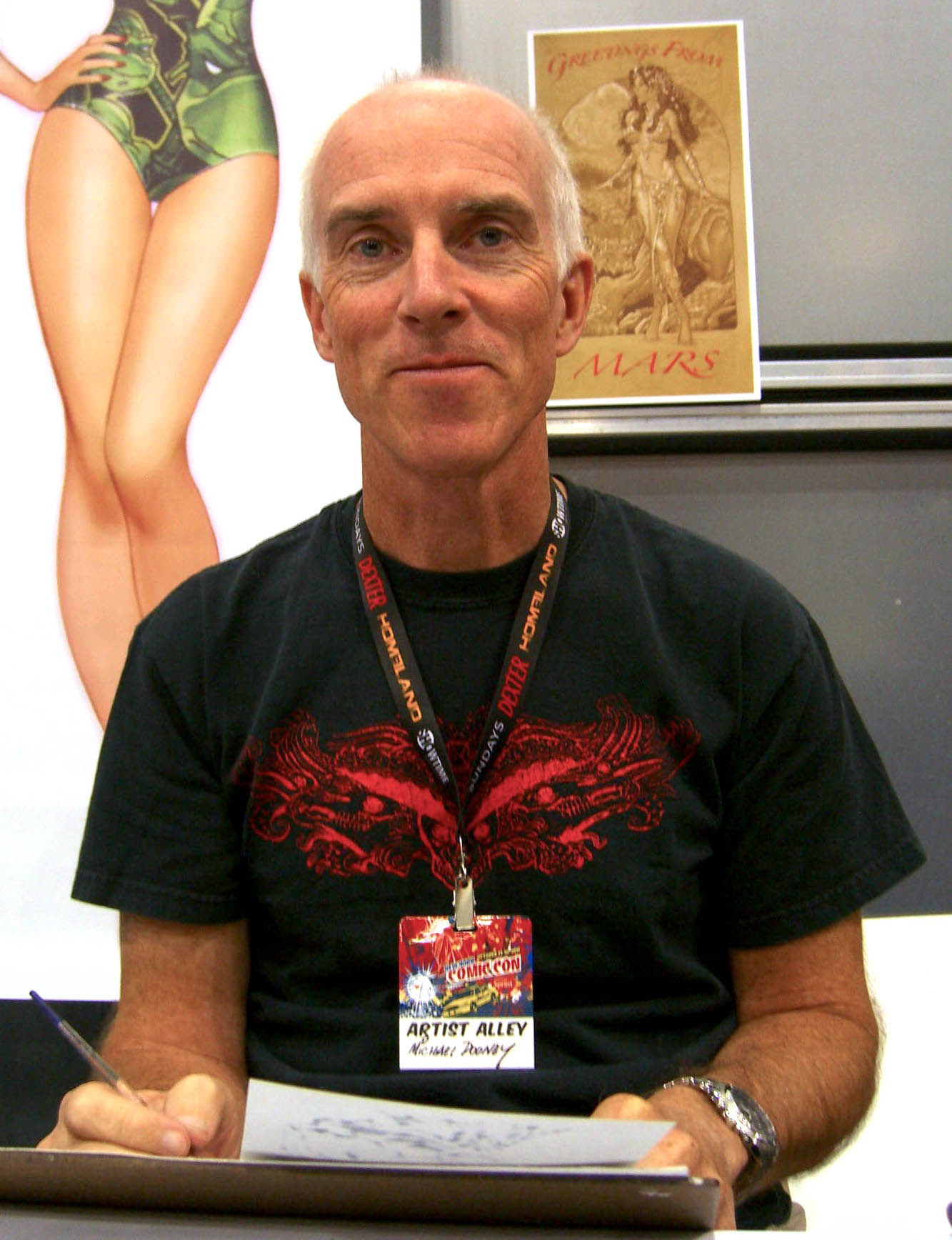 Comics creator Michael Dooney during an October 16, 2011 appearance at the New York Comic Con in Manhattan. This photo was created by Luigi Novi. It is not in the public domain, and use of this file outside of the licensing terms is a copyright violation.